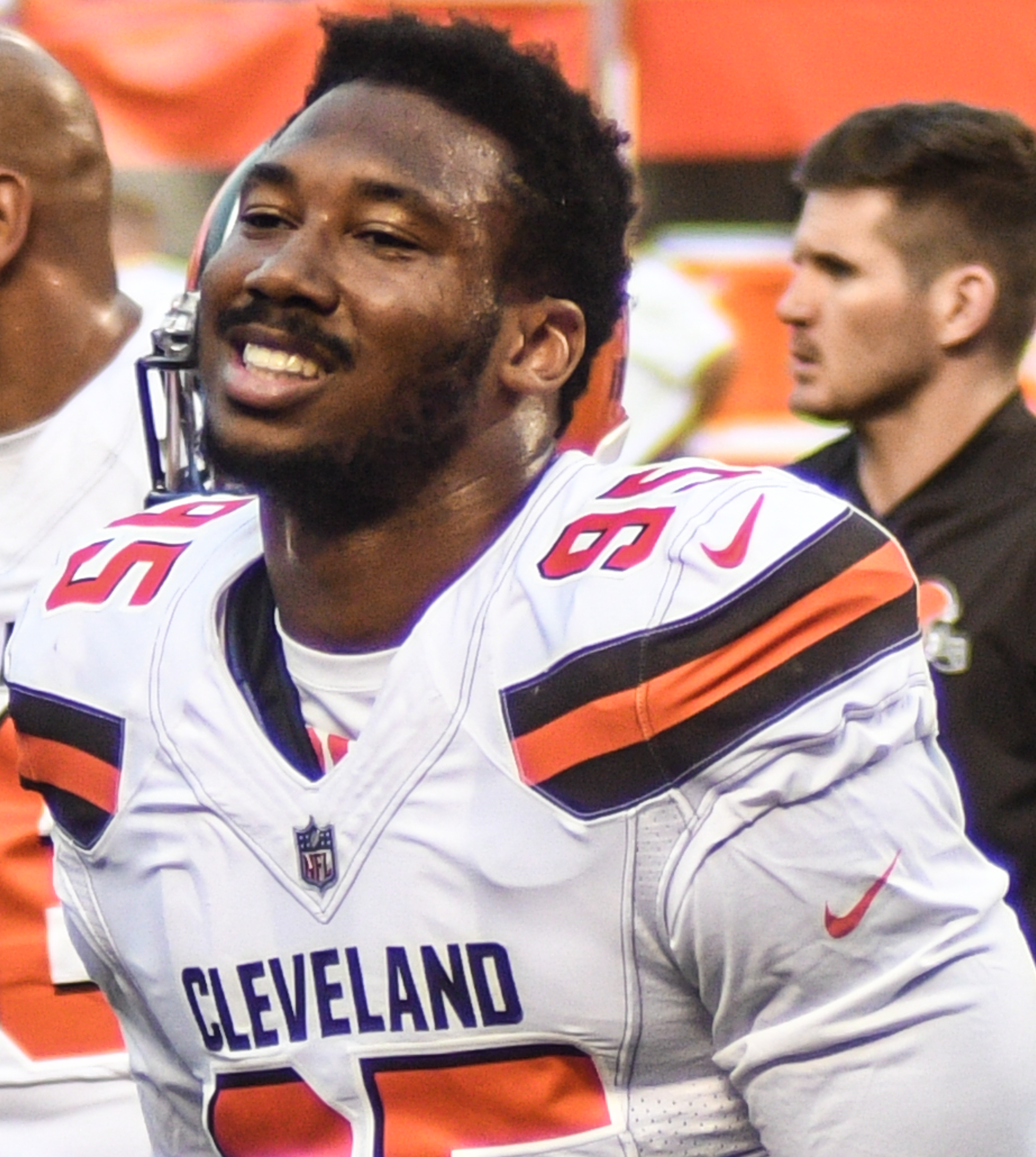 Cleveland Browns vs. New York Giants